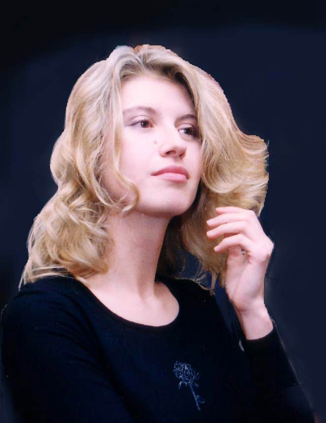 A picture of the children/young addult author Julia Spiridonova - Yulka